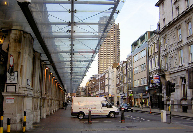 Glazed canopy to Smithfield Market fronting Long Lane The tower block of Barbican is clearly visible in the background.